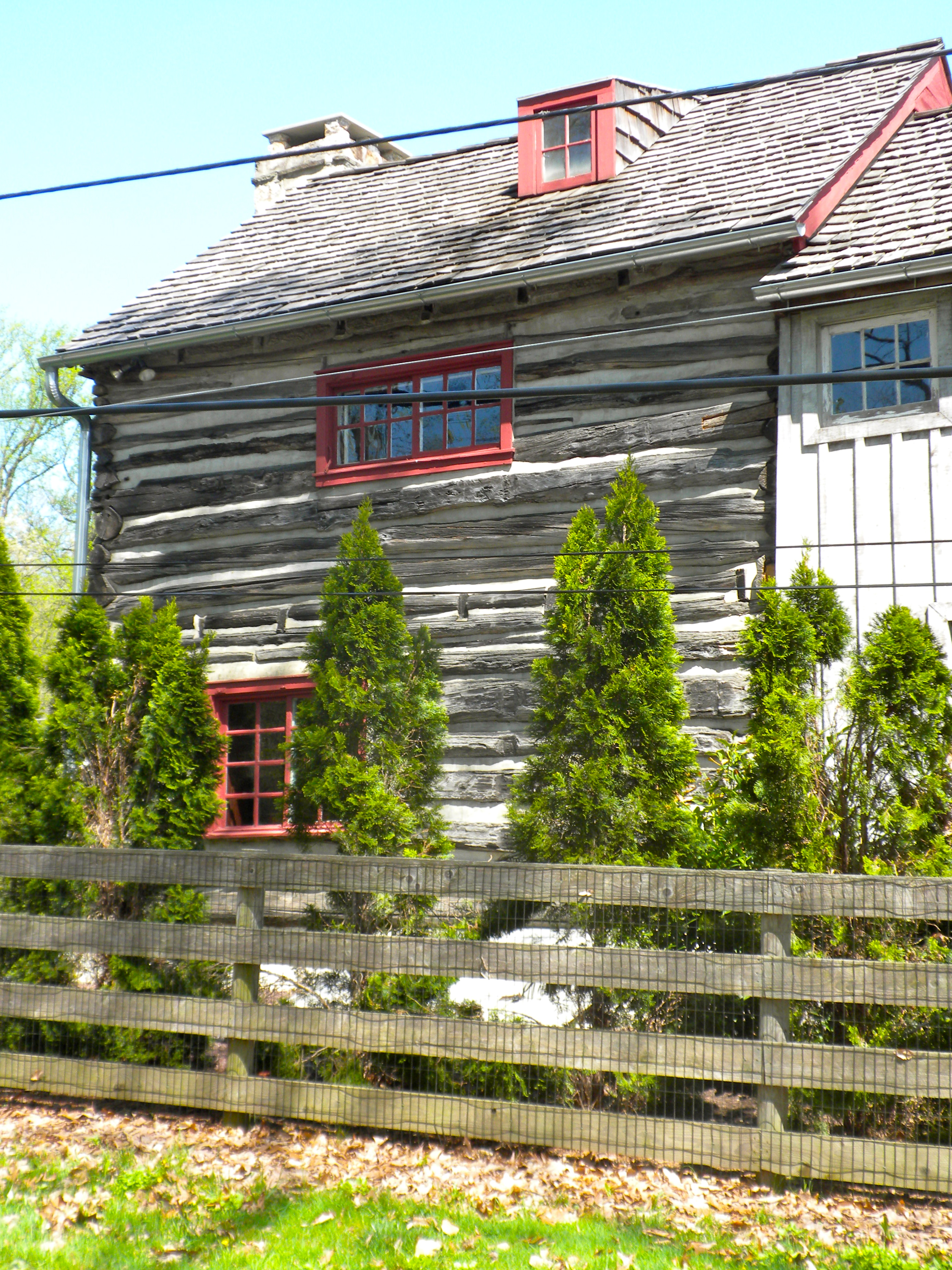 Lapp Log House on NRHP since January 23, 1980. Located south of Chester Springs at Conestoga and Yellow Springs Roads, in Chester County, PA, East Whiteland Township